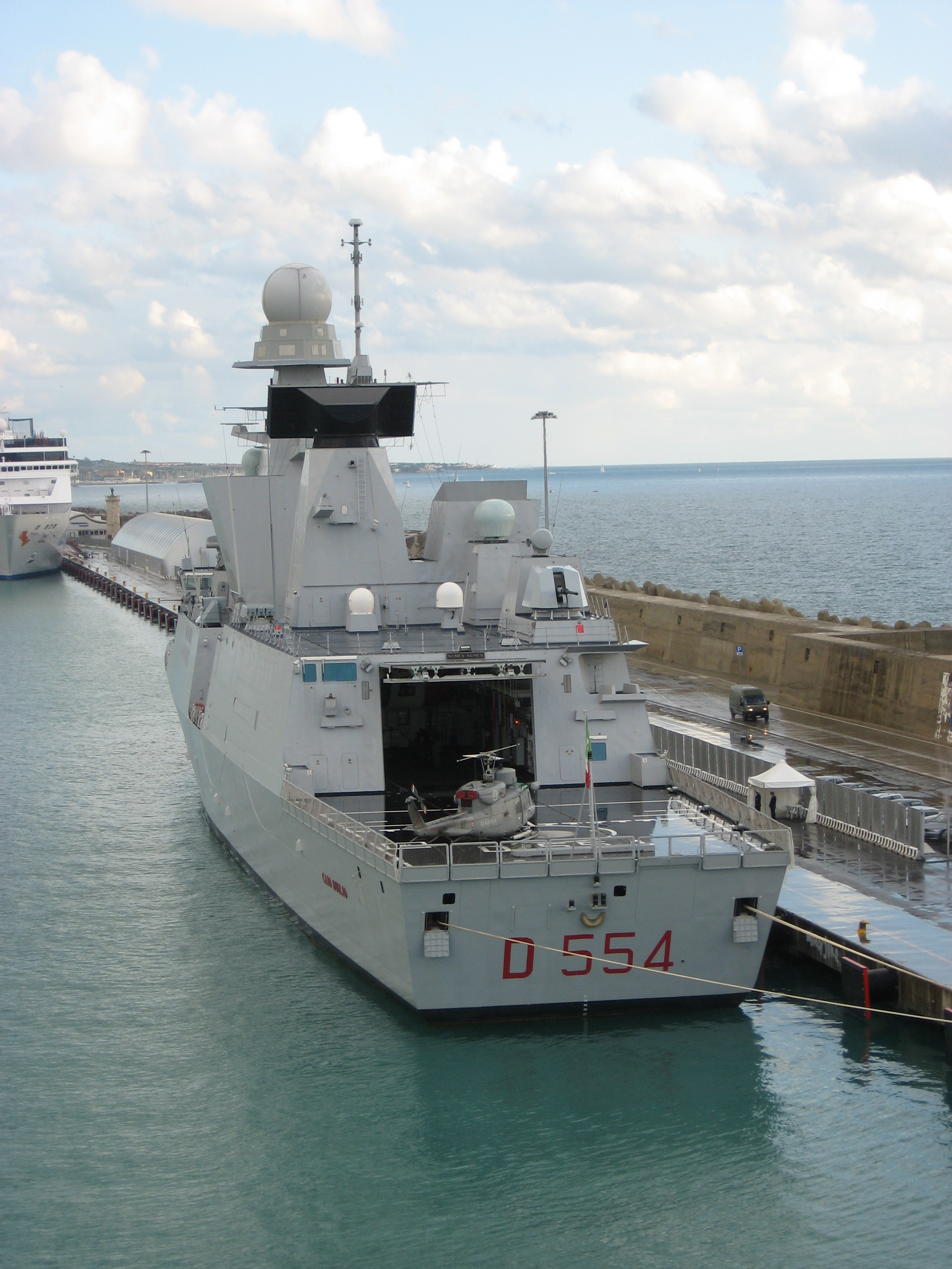 Stern of the italian Caio Duilio destroyer.